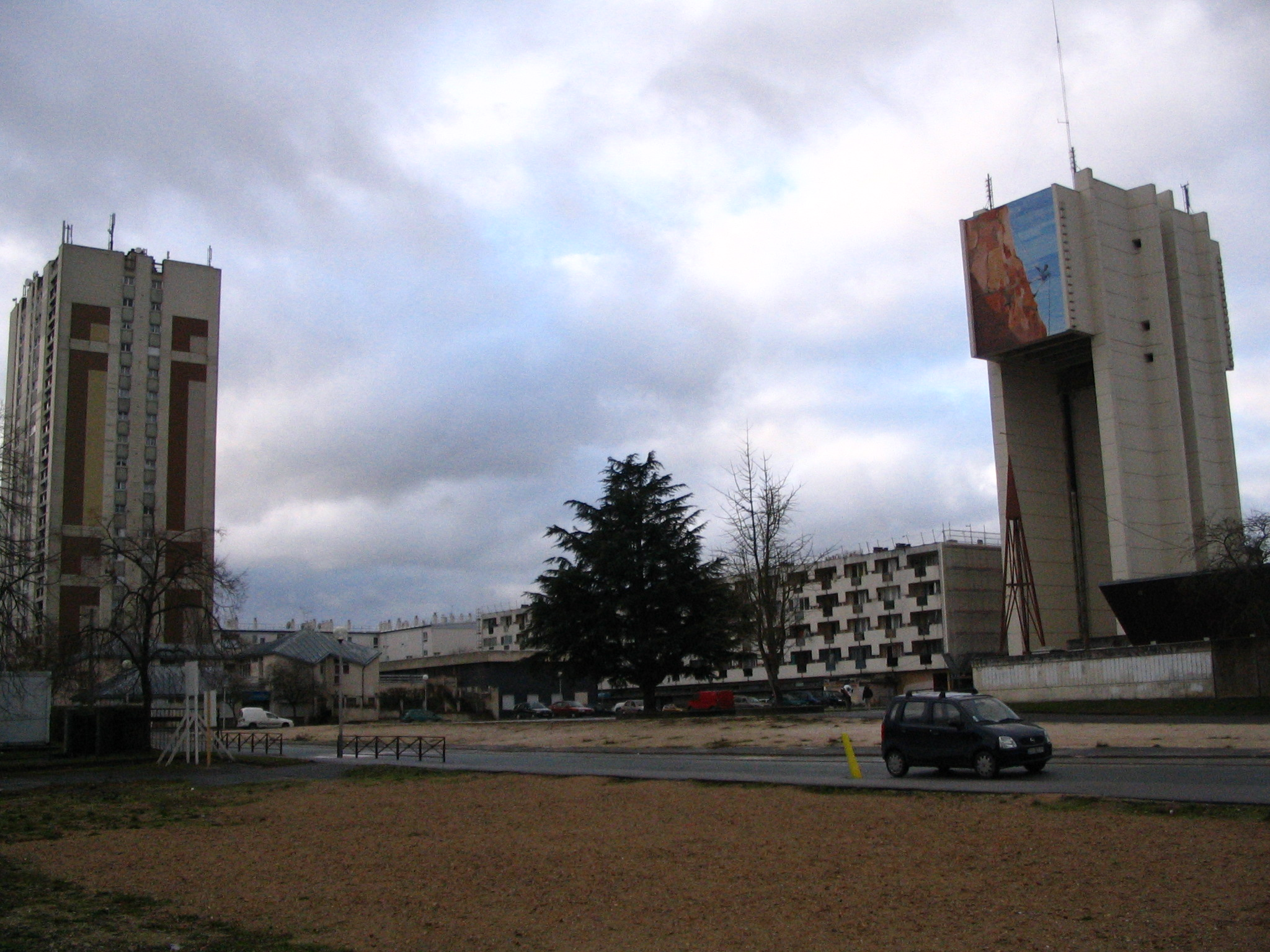 Buildings in the housing estate of Surville, in Montereau-Fault-Yonne, Seine-et-Marne, France.